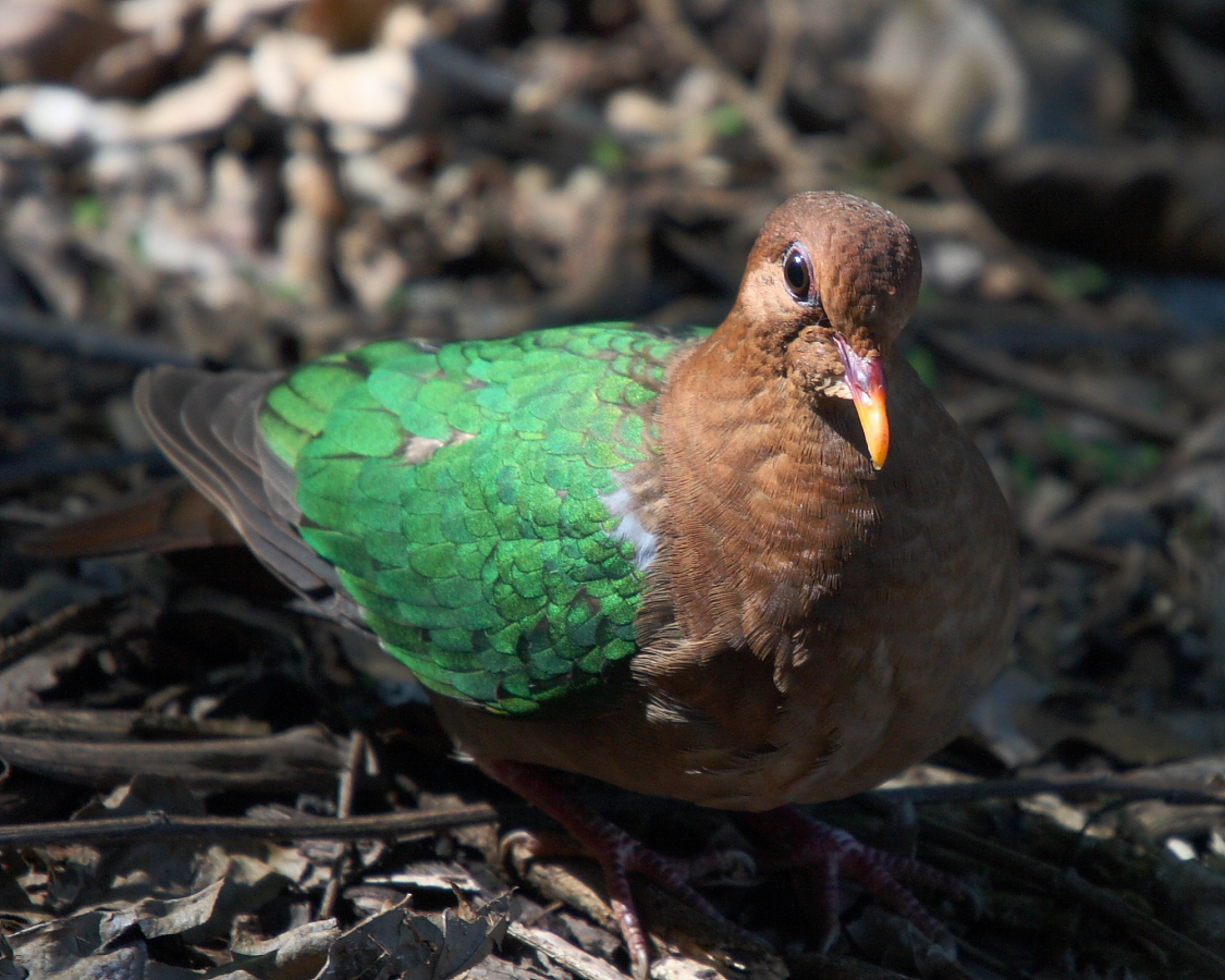 Pacific Emerald Dove Chalcophaps longirostris at Alexandra Lookout Daintree, Queensland